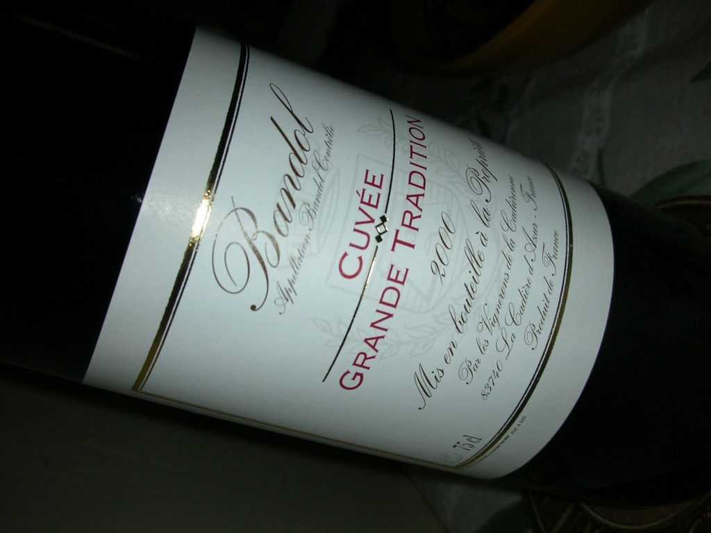 A bottle of the French wine Bandols from Provence made predominantly of mourvedre.